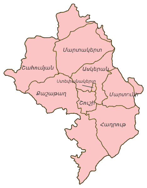 Provincesof Nagorno-Karabakh Republic (Armenian), English version: Nagorno-Karabakh provinces English.png